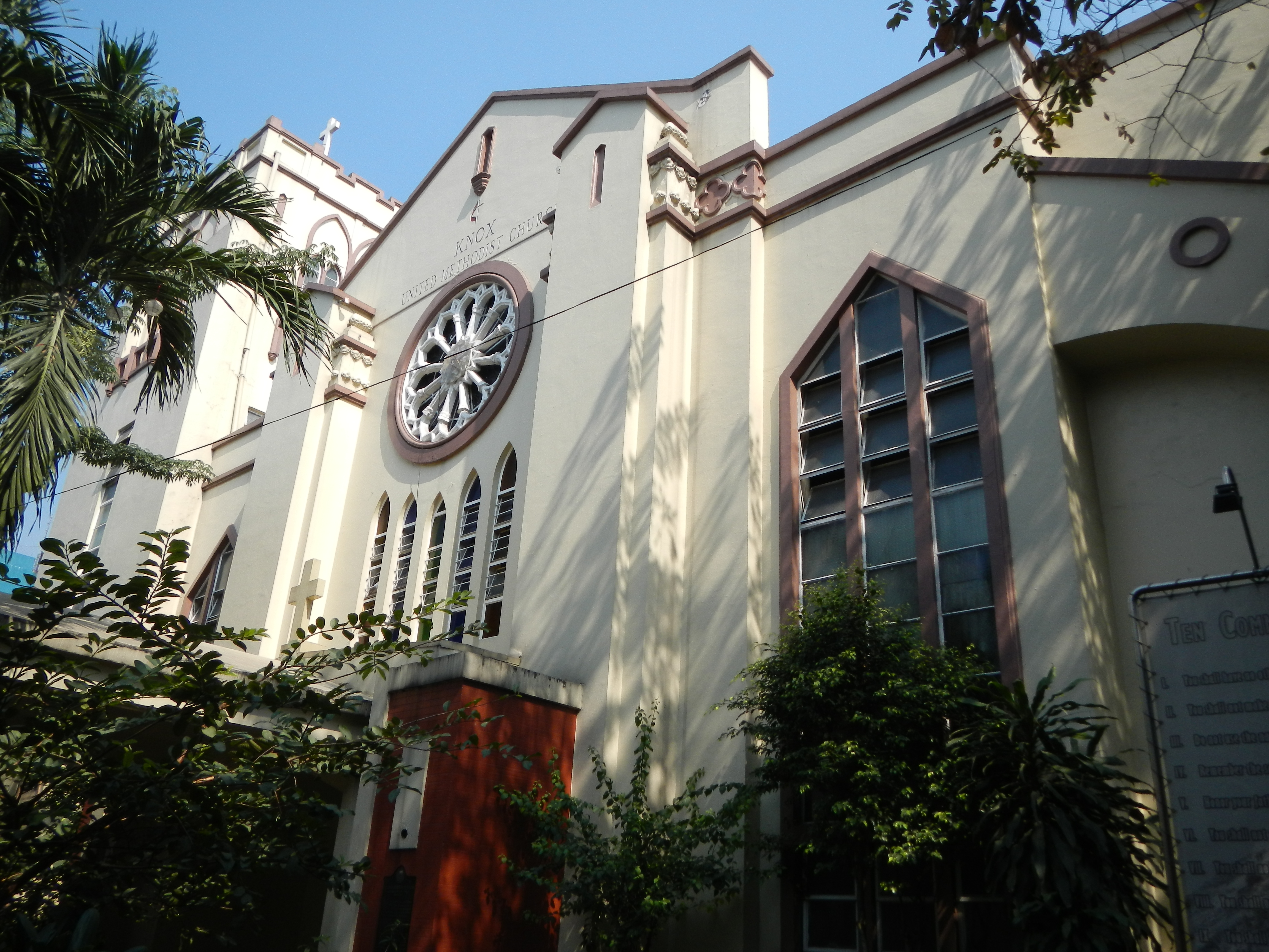 Upload Wizard photos -- (General description, 3-dimension angle by angle photography of this town, church & landmarks) -- Knox United Methodist Church [1] is known to be the first Filipino United Methodist Church[2] in the Philippines located along Rizal Avenue in Sta. Cruz, Manila. Philippines Central Conference (United Methodist Church)[3] Central United Methodist Church (Manila)[4] 960 Rizal Avenue cor. Lope de Vega st., Santa Cruz, Manila.